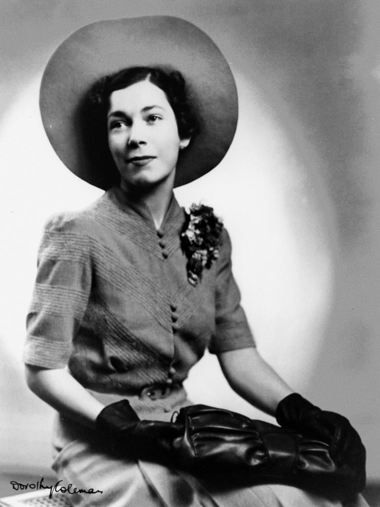 Woman photographed on her wedding day, 1941 Young woman photographed on her wedding day in July 1941. During war time, brides often did not wear traditional wedding dress as large numbers of clothing coupons were needed to purchase elaborate clothes. The bride has opted instead for a classic 1940s day dress with a corsage on her left shoulder, a wide-brimmed hat, gloves and a handbag. Her hair is parted at the side, with set curls.